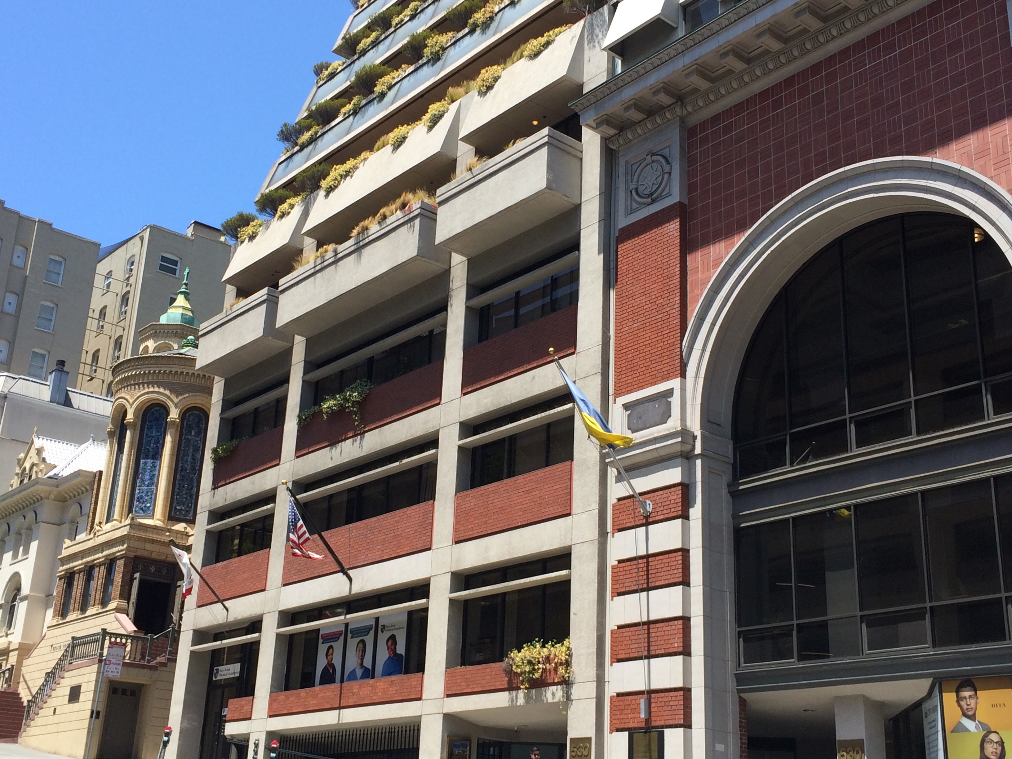 Consulate-General of Ukraine in San Francisco, California